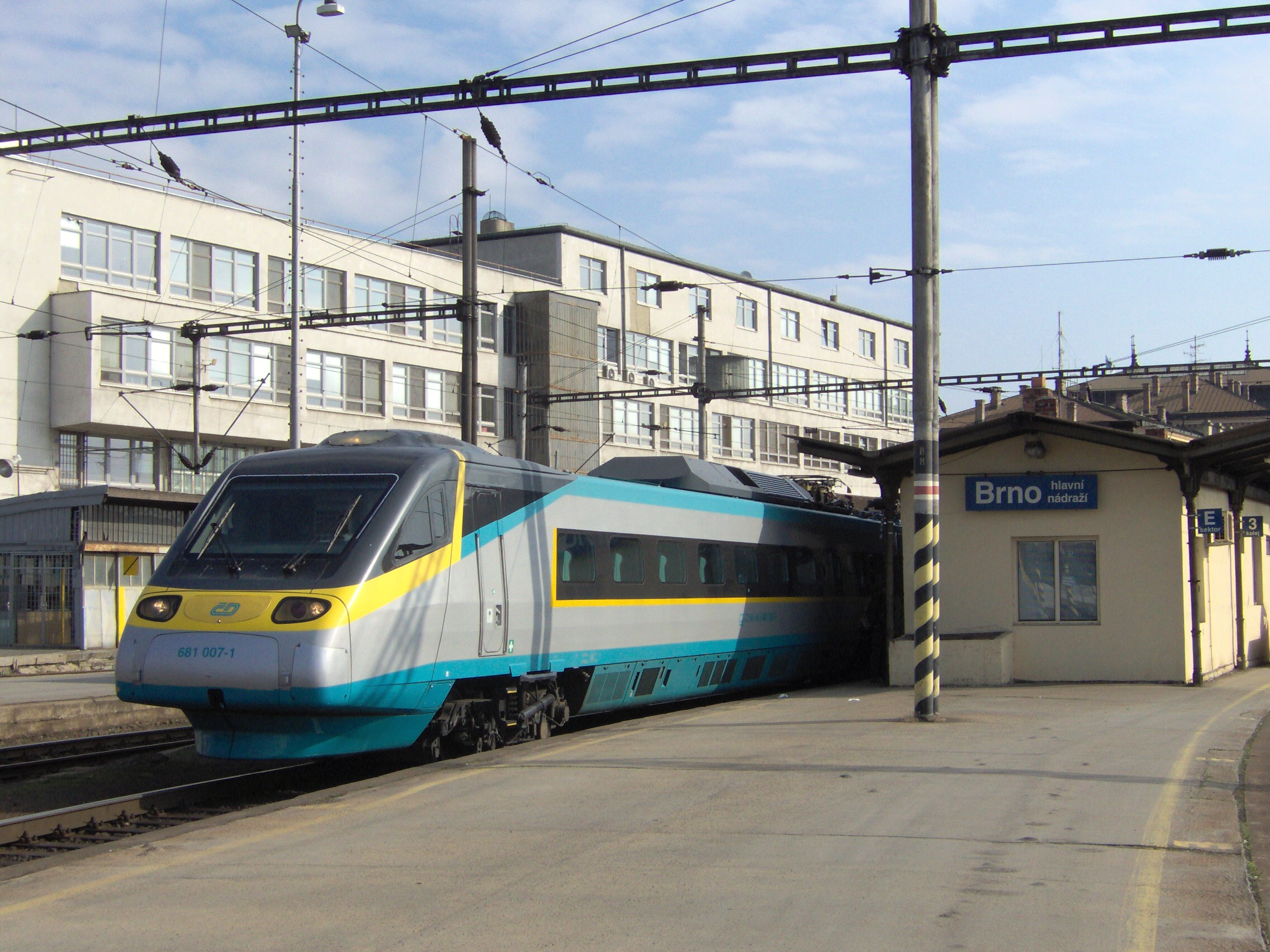 Electric multiple unit 680.007, Brno main station, Czech Republic